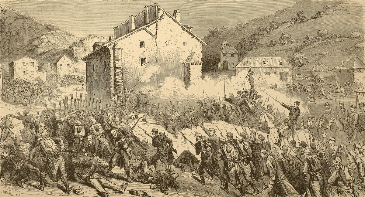 Museo_Zumalakarregi_Albumsigloxix_001109.JPG. Imagen de KMK.